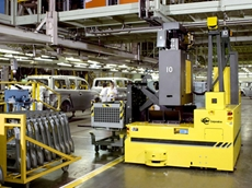 Photo taken from the JBT Corporation Photo Archives